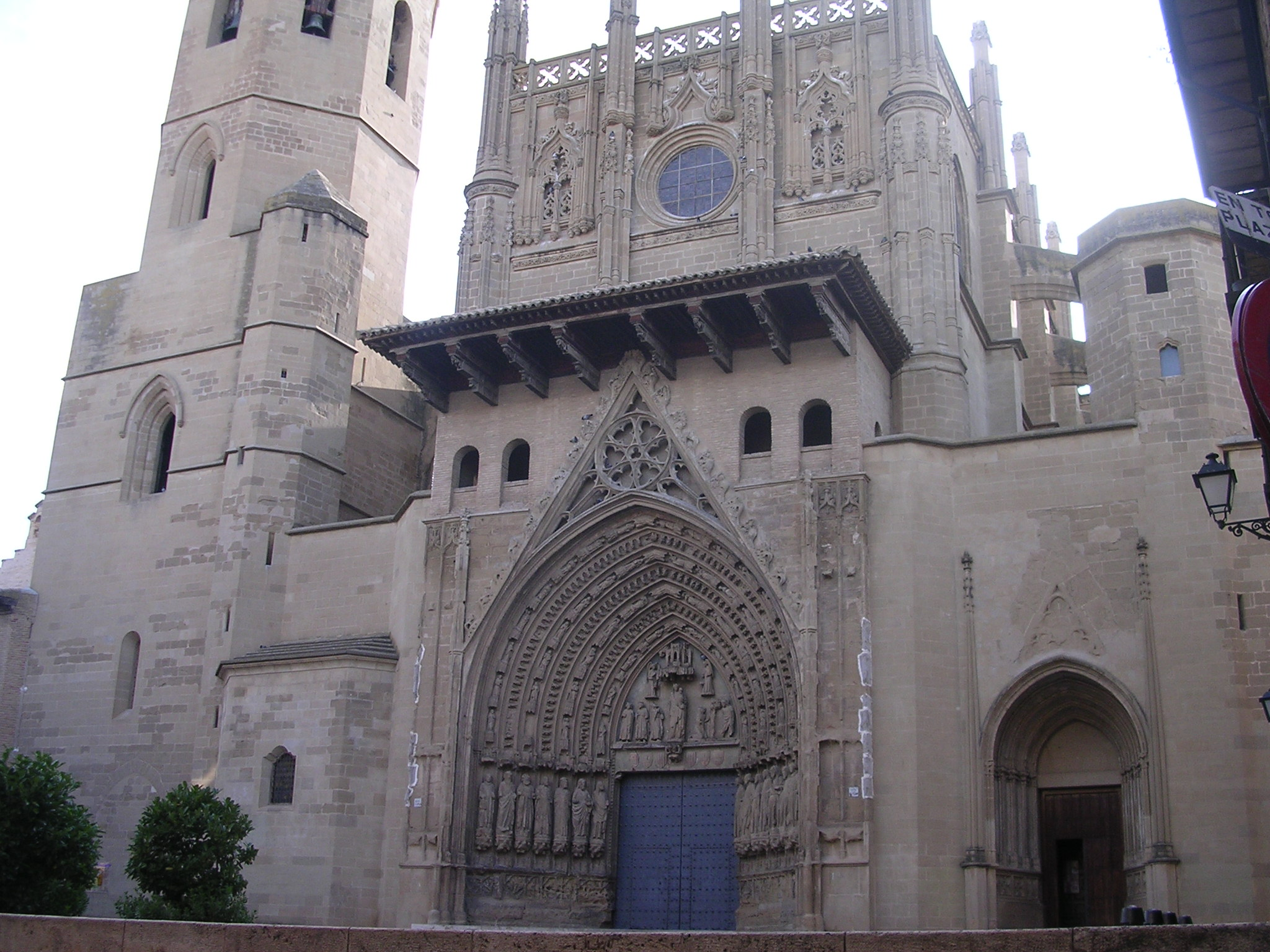 Huesca, Spain